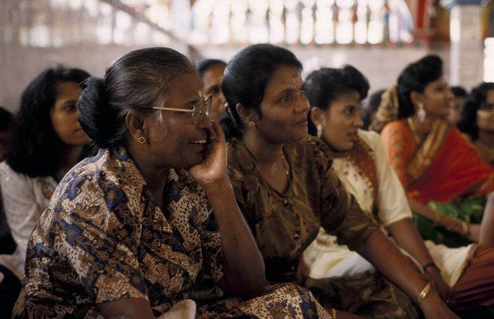 Women in the Hindu temple 'Sri Mariamman'